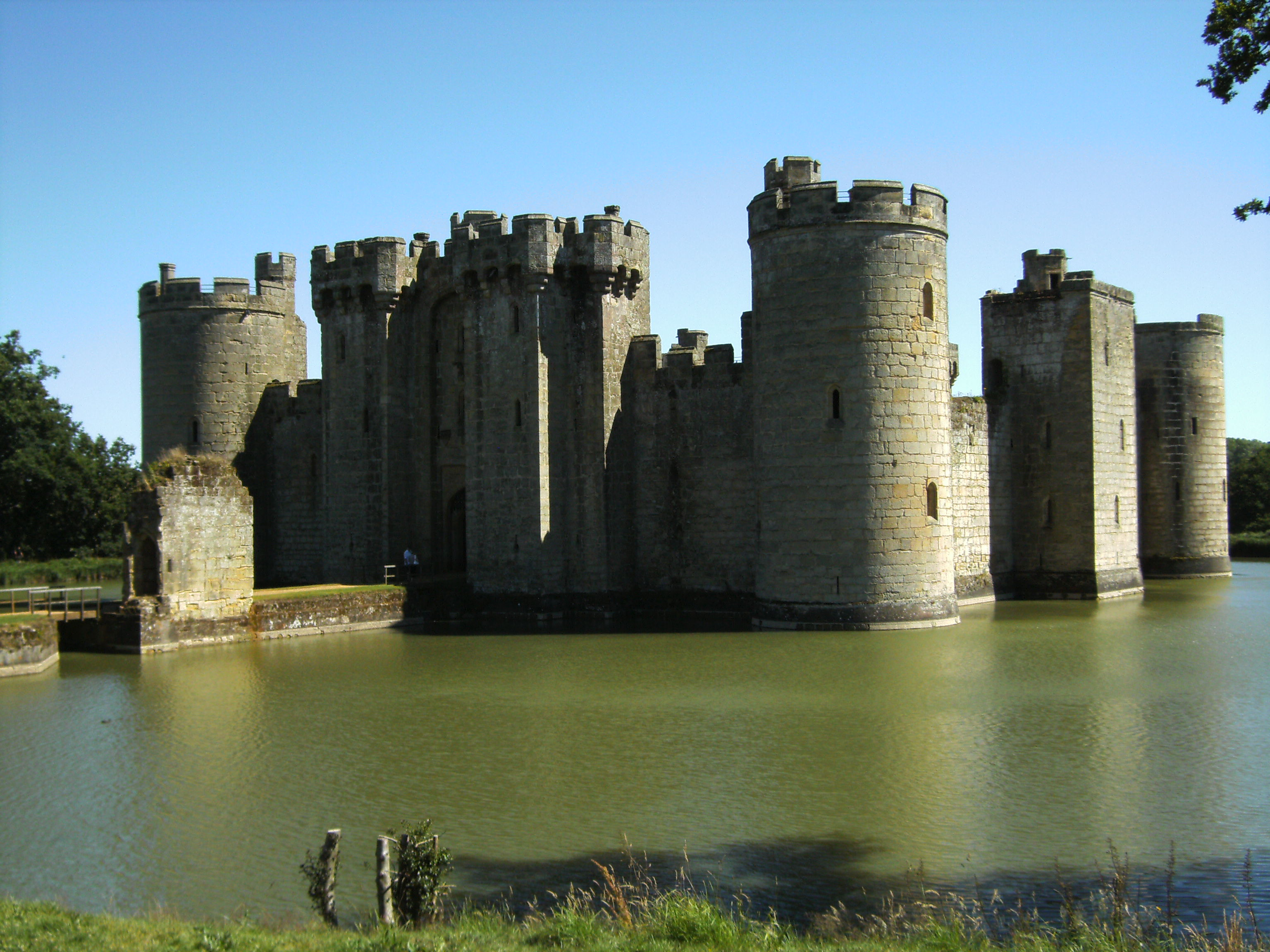 Bodiam Castle from the north-west.